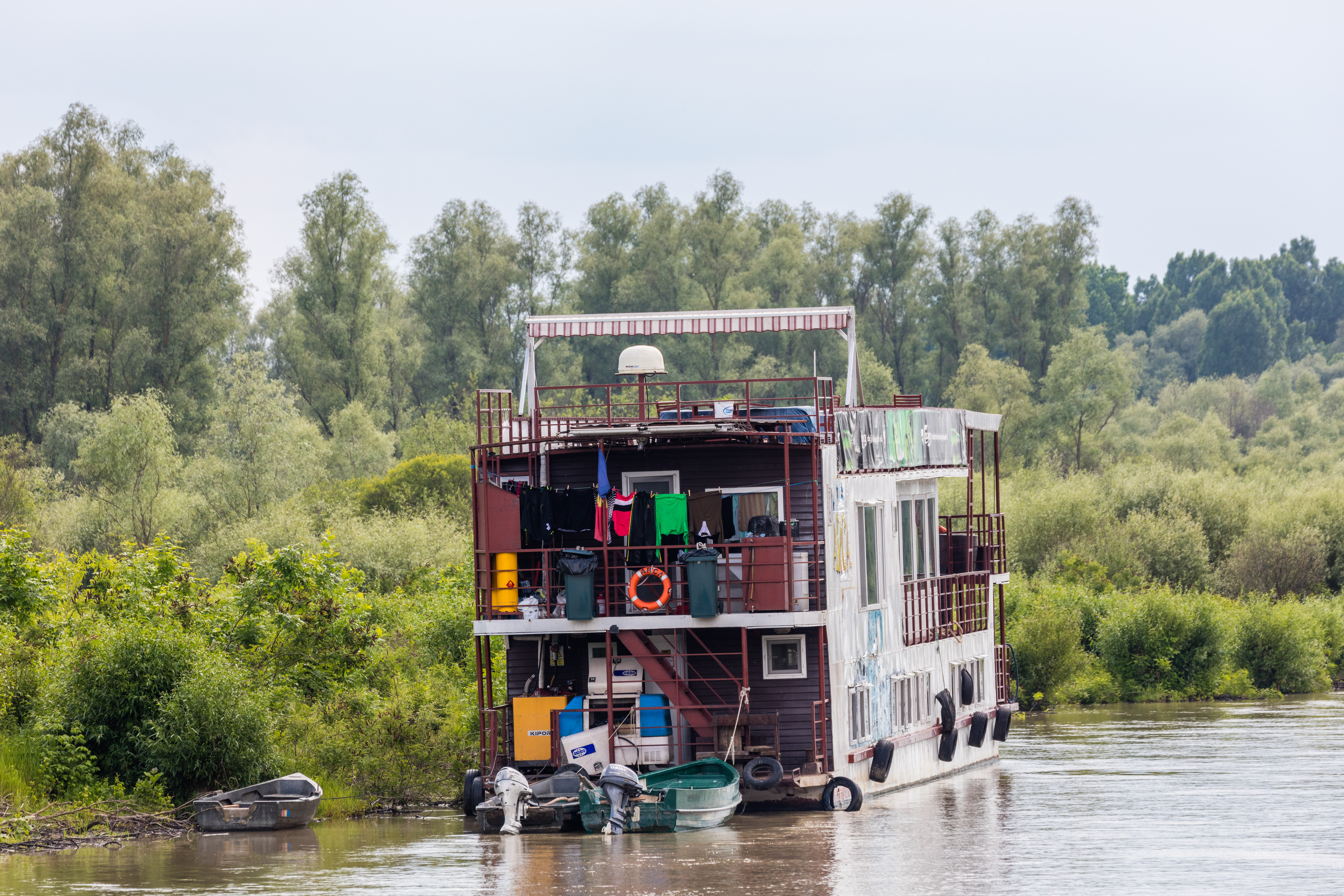 Ship in the Danube Delta, Romania